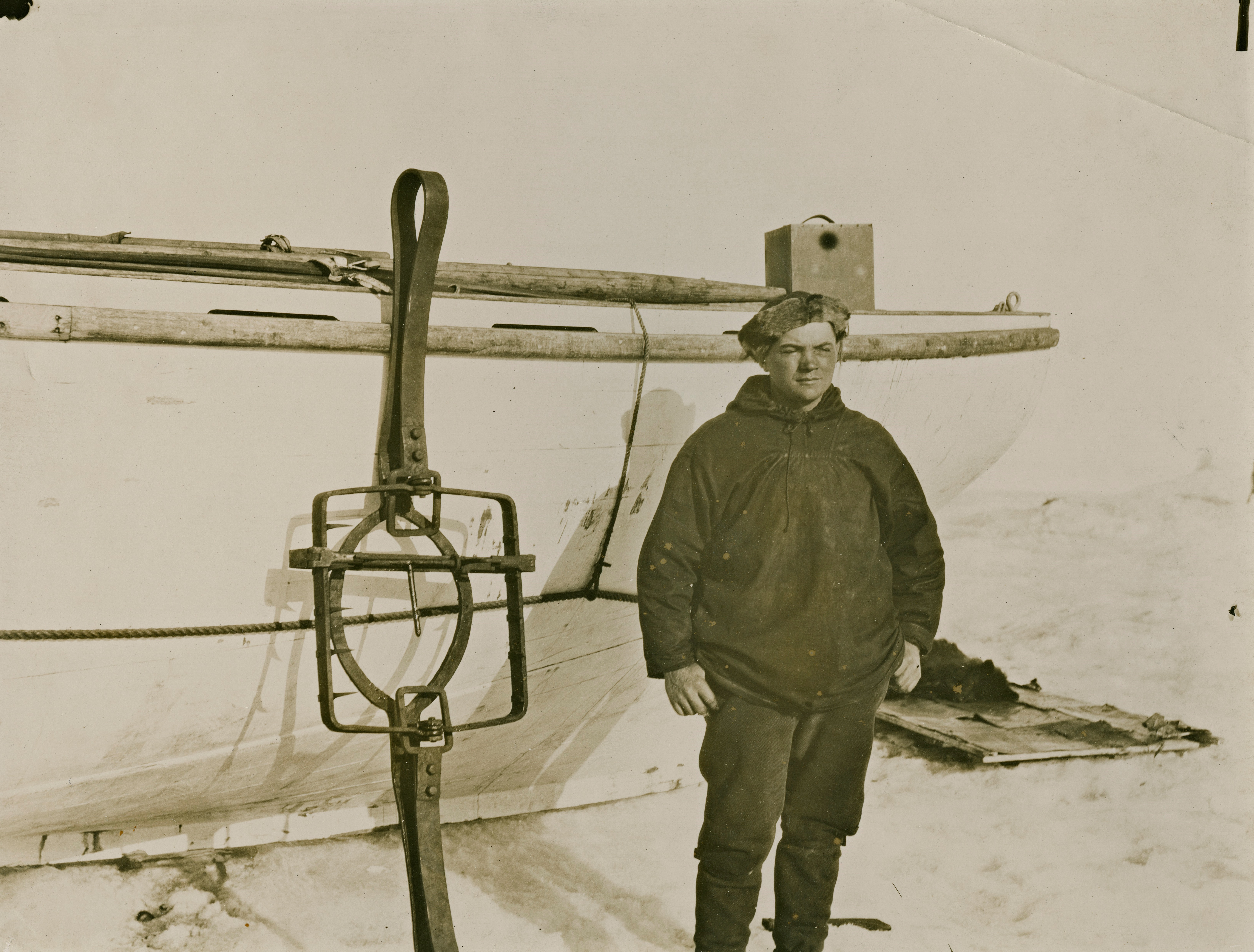 Lars Pettersen, second engineer and smith, by the bear trap. One of the pictures from the expedition with arctic ship toward the North Pole in the period June 24, 1893 to August 13, 1896. According to the plan, the ship was to drift in the ice with the ocean current from the coast of Siberia across the North Pole to Greenland.